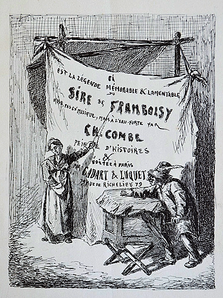 Black ink sketch by Charles-François Combe for a suite of etchings published by La Société des aquafortistes, Cadart & Luquet, Paris.